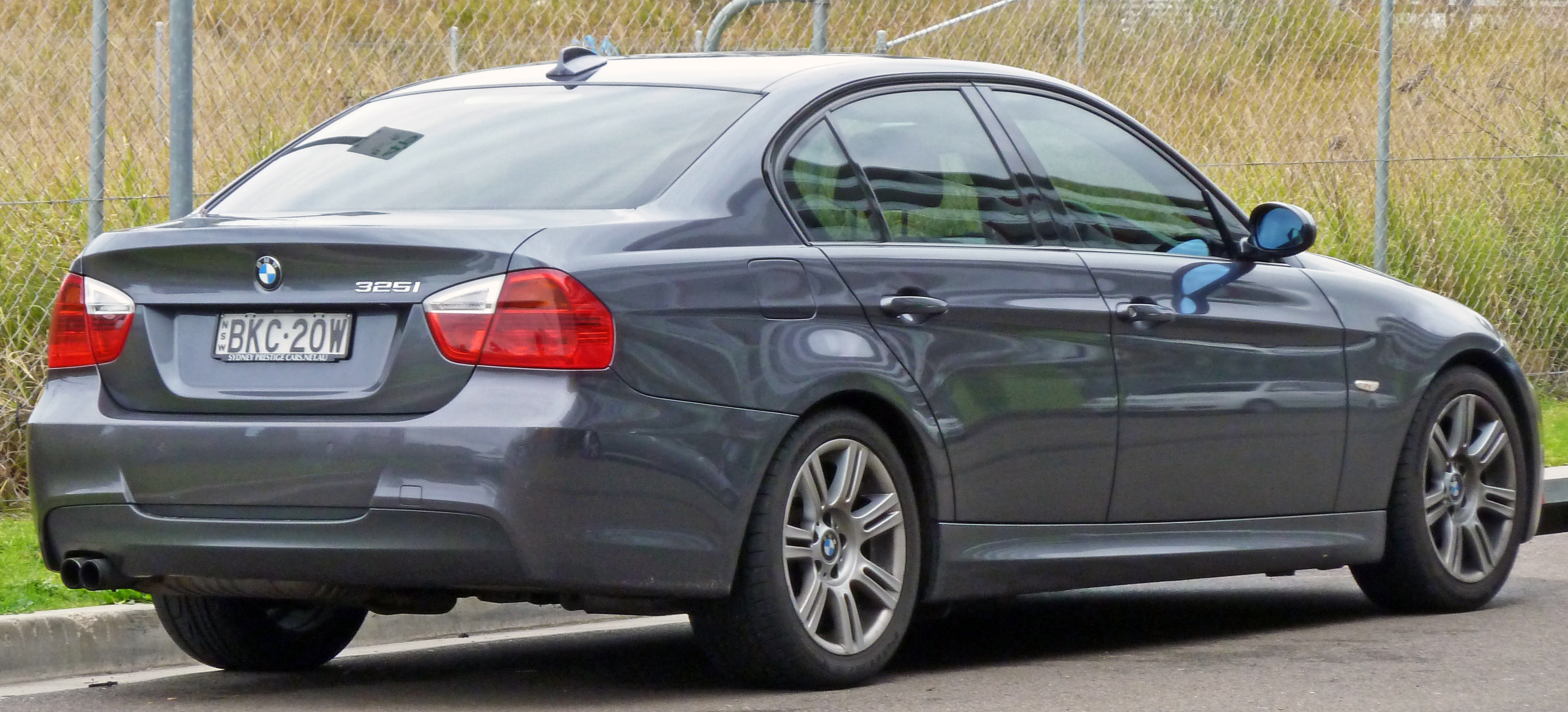 2005–2008 BMW 325i (E90) sedan. Photographed in Zetland, New South Wales, Australia.